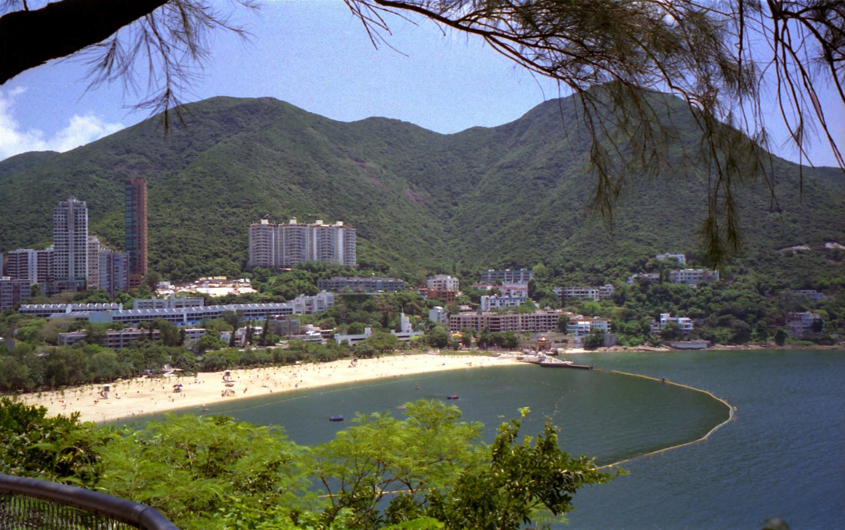 Repulse Bay on the south shore of the island of Hong Kong. On Google Earth: Repulse Bay 22°14'6.82"N, 114°11'43.26"E